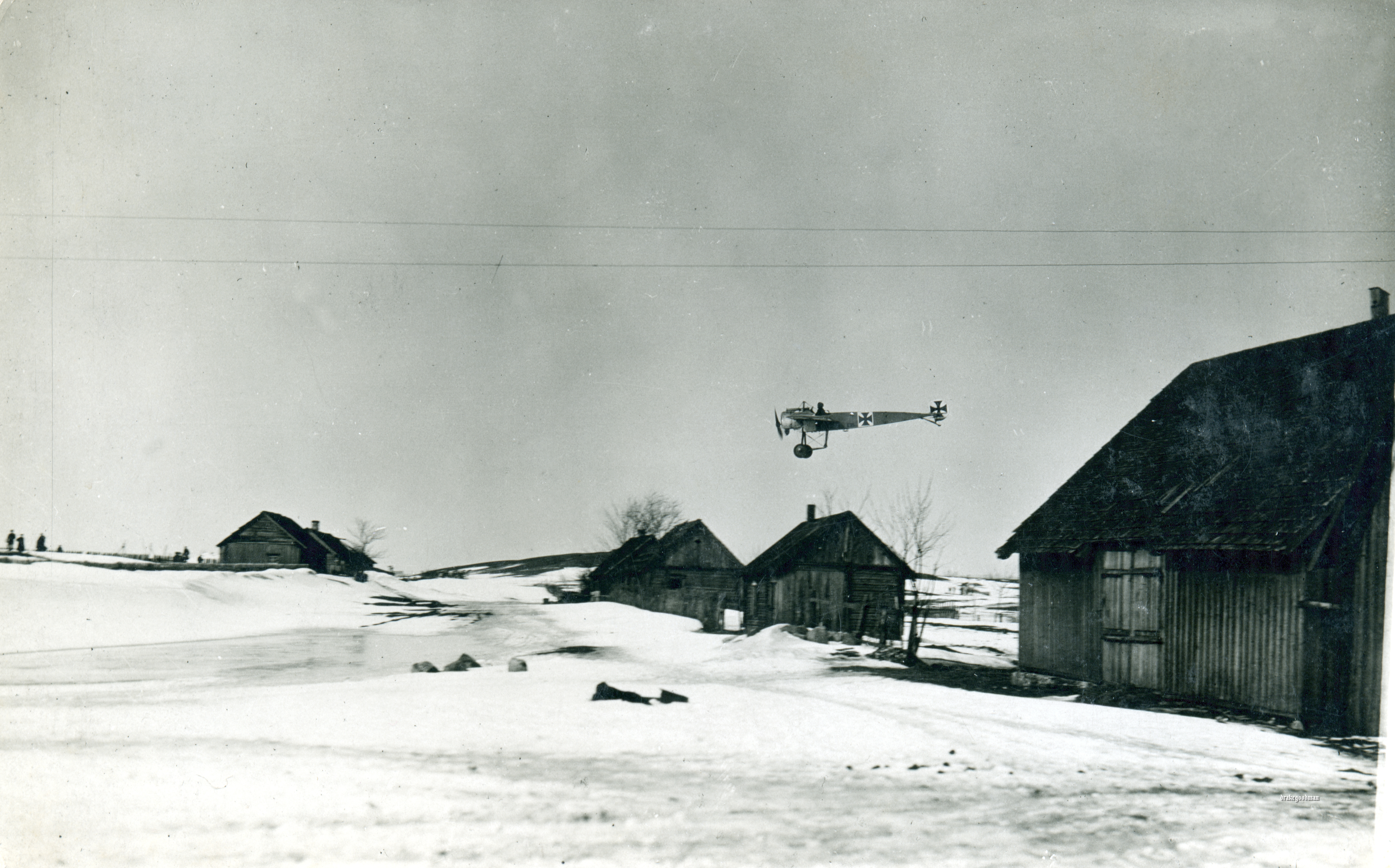 Fokker E.II/35 from Feldflieger Abteilung 14 preparing to land at an airfield on the Eastern Front. The E.II was built in parallel with the E.I and the choice of whether an airframe became an E.I or E.II depended on the availability of engines. In total, Fokker production figures state that 49 E.IIs were built and 45 of these had been delivered to the Western Front Fliegertruppe by December 1915. These figures mean that E.II 35/15 was one of the very few E.IIs that saw action on the Eastern Front. In the distant background (right side) is a possible Rumpler aircraft (source).